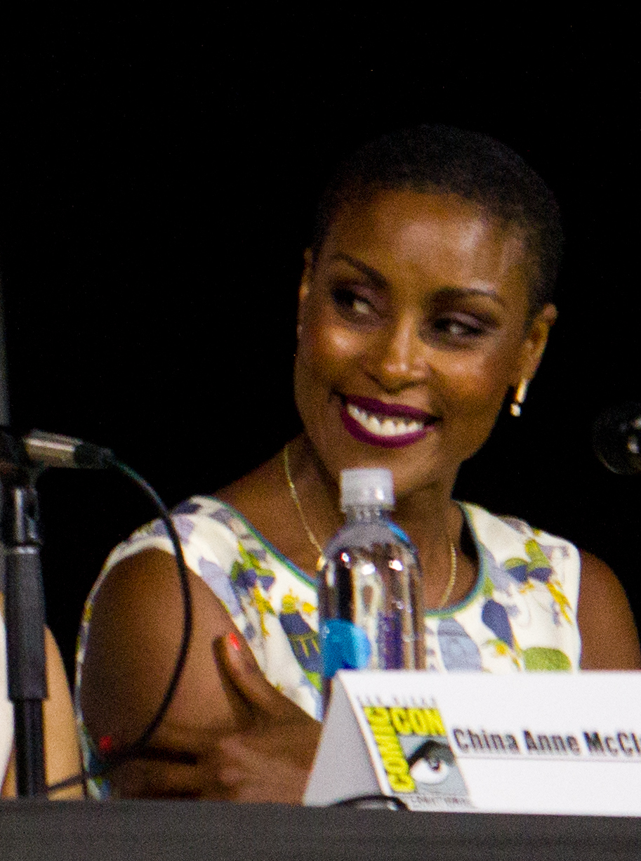 Nafessa Williams, Cress Williams, China Anne McClain and Christine Adams speaking at the 2017 San Diego Comic Con International, for "Black Lightning", at the San Diego Convention Center in San Diego, California.